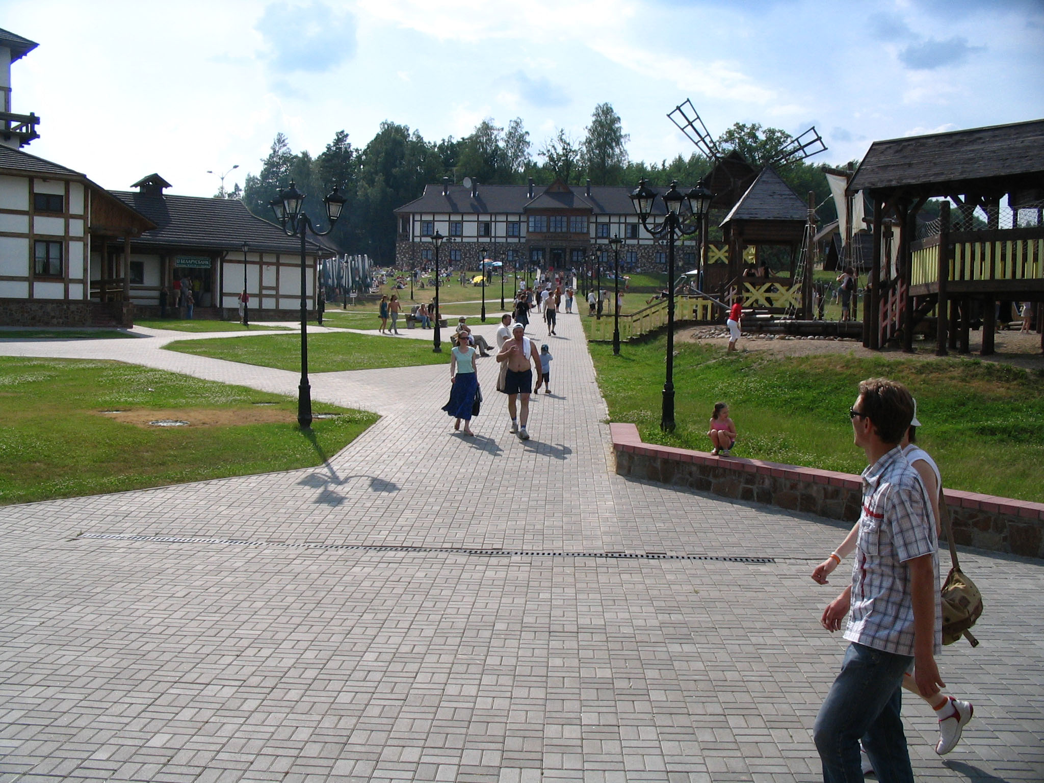 Sport Complex Lahojsk, Belarus